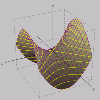 Hyperbolic paraboloid